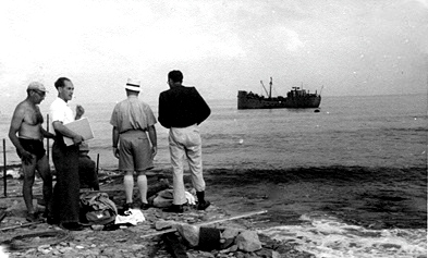 Shipwreck of immigrant ship Hannah Szenes